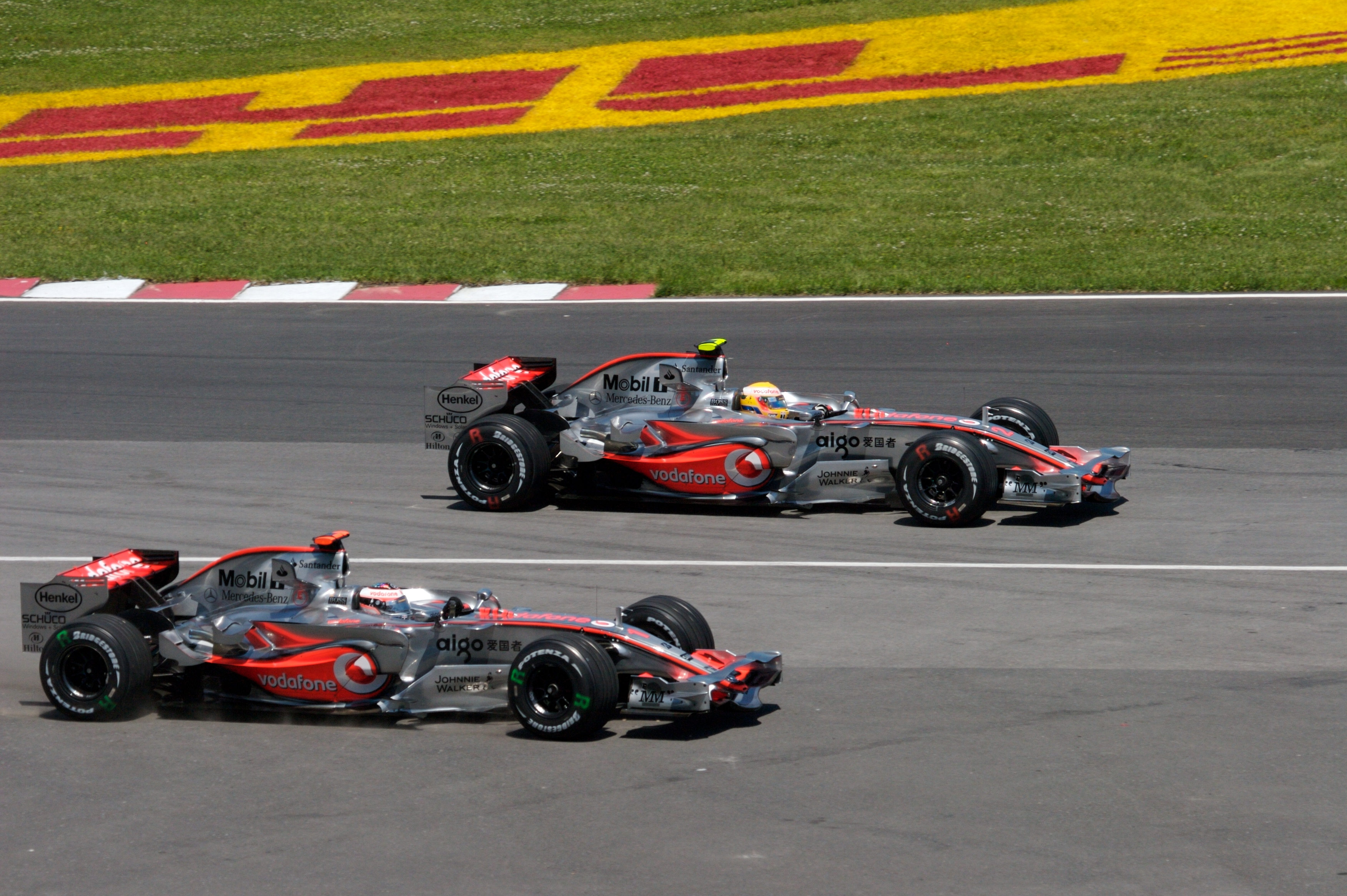 Lewis Hamilton leads into the first corner of the 2007 Canadian Grand Prix as Fernando Alonso runs wide.